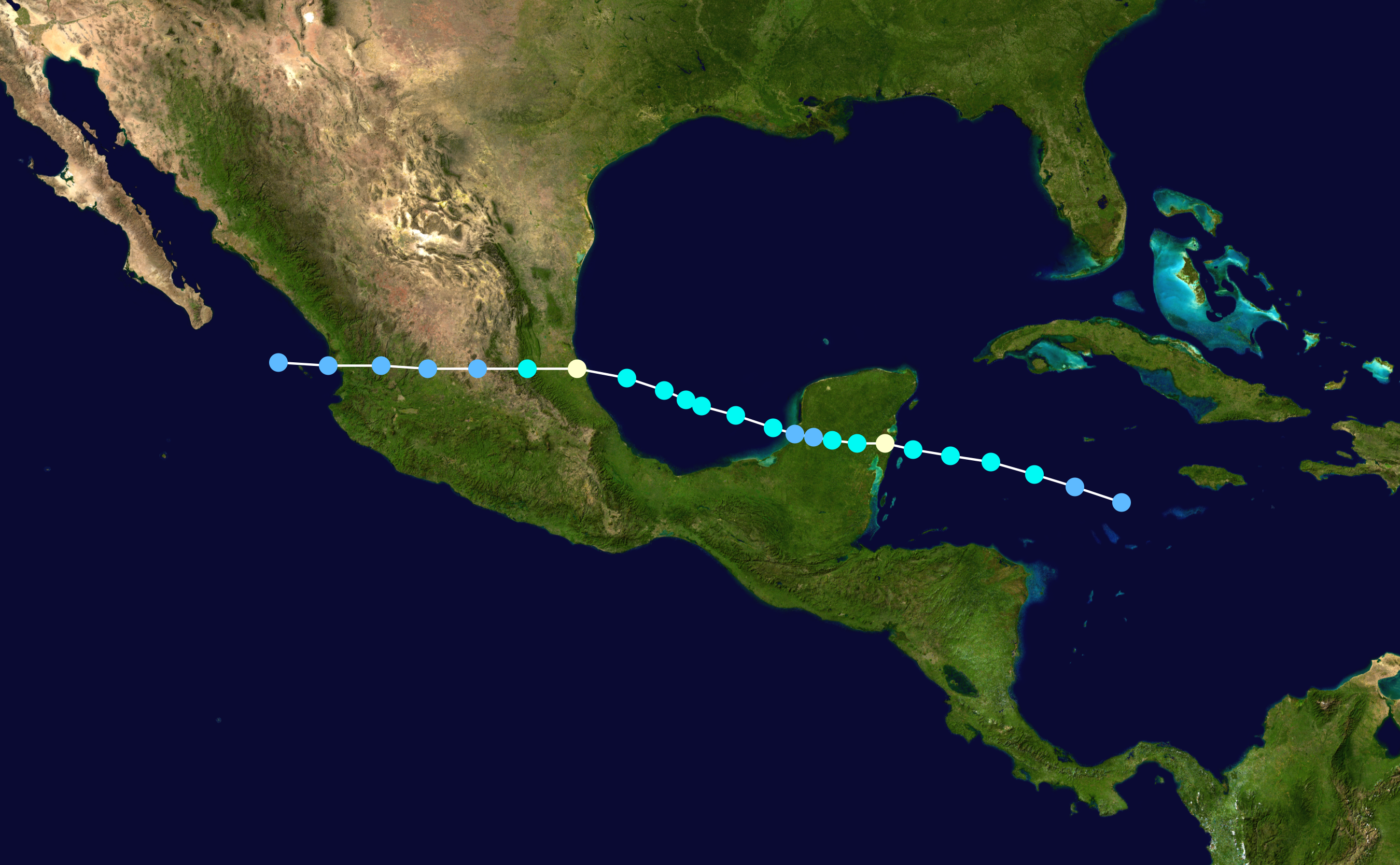 Track map of Hurricane Dolly of the 1996 Atlantic hurricane season. The points show the location of the storm at 6-hour intervals. The colour represents the storm's maximum sustained wind speeds as classified in the Saffir–Simpson scale (see below), and the shape of the data points represent the nature of the storm, according to the legend below. Saffir–Simpson scale Tropical depression≤38 mph≤62 km/h Category 3111–129 mph178–208 km/h Tropical storm39–73 mph63–118 km/h Category 4130–156 mph209–251 km/h Category 174–95 mph119–153 km/h Category 5≥157 mph≥252 km/h Category 296–110 mph154–177 km/h Unknown Storm type Tropical cyclone Subtropical cyclone Extratropical cyclone / Remnant low / Tropical disturbance / Monsoon depression